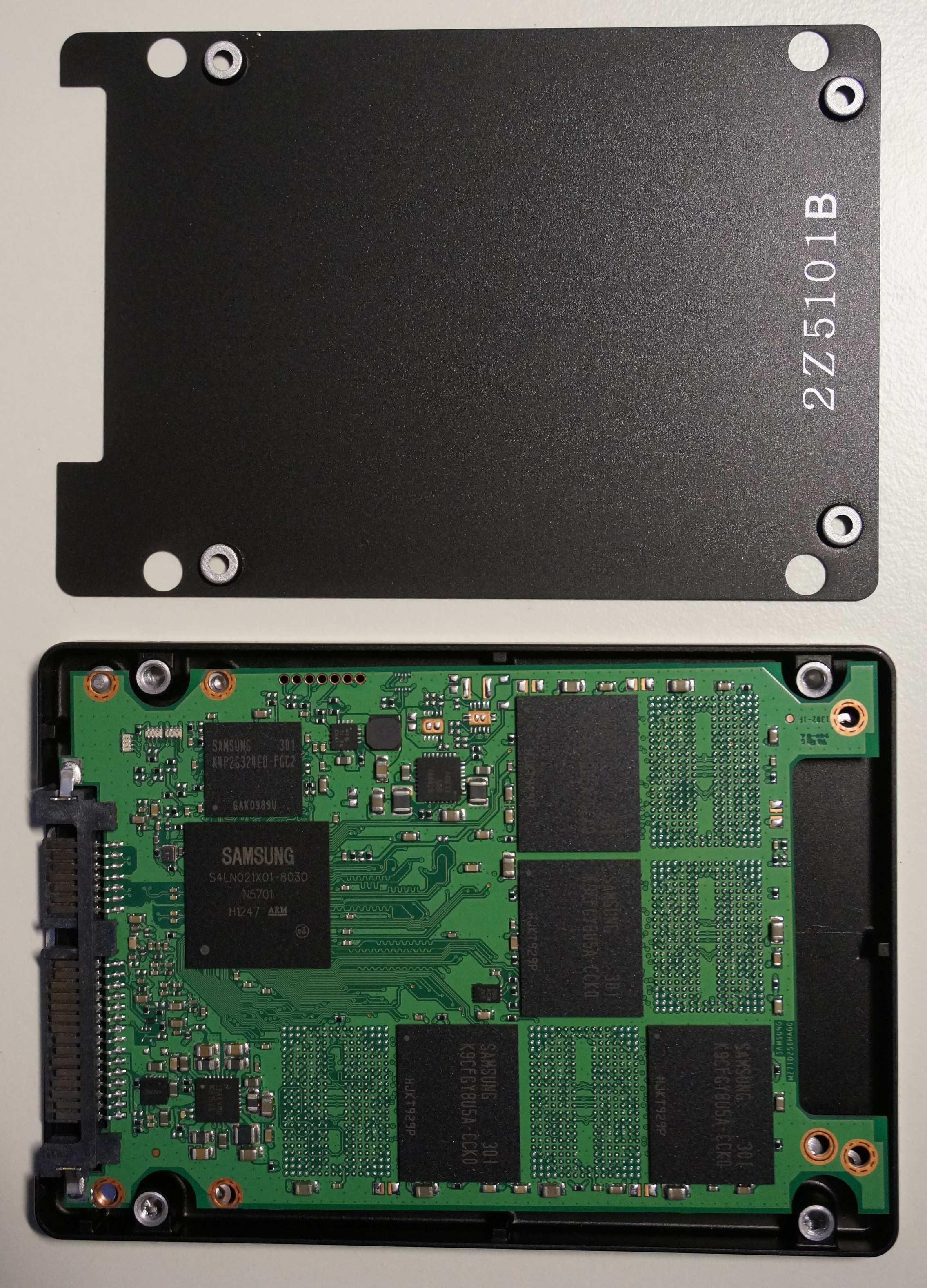 Samsung SATA SSD disk 120 GB - model MZ-7TD120 lid removed